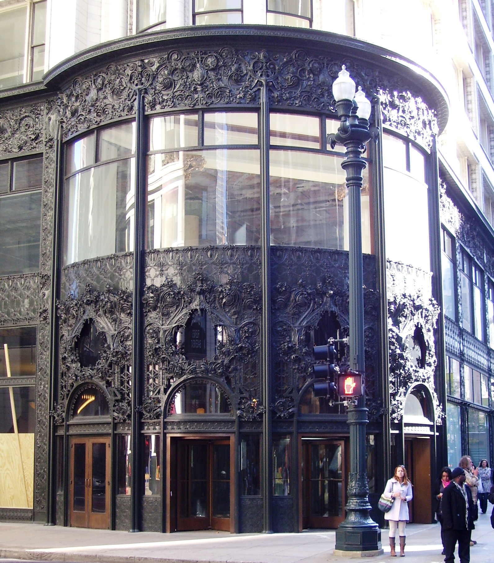 The northwest entrance to the Carson, Pirie, Scott and Company Building at 1 South State Street at East Madison Street in Chicago, Illinois, also known as the Sullivan Center.